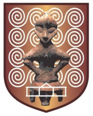 Coat of Arms of Priština/Prishtina municipality